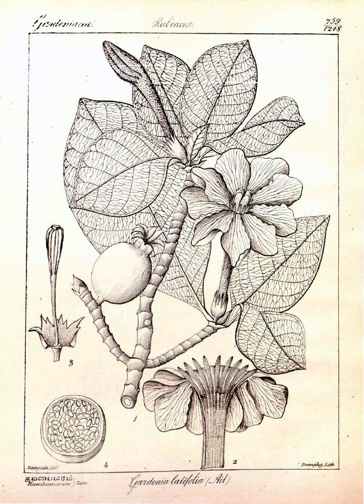 Plate 759/1218 of Icones plantarum Indiae Orientalis v3(1846)